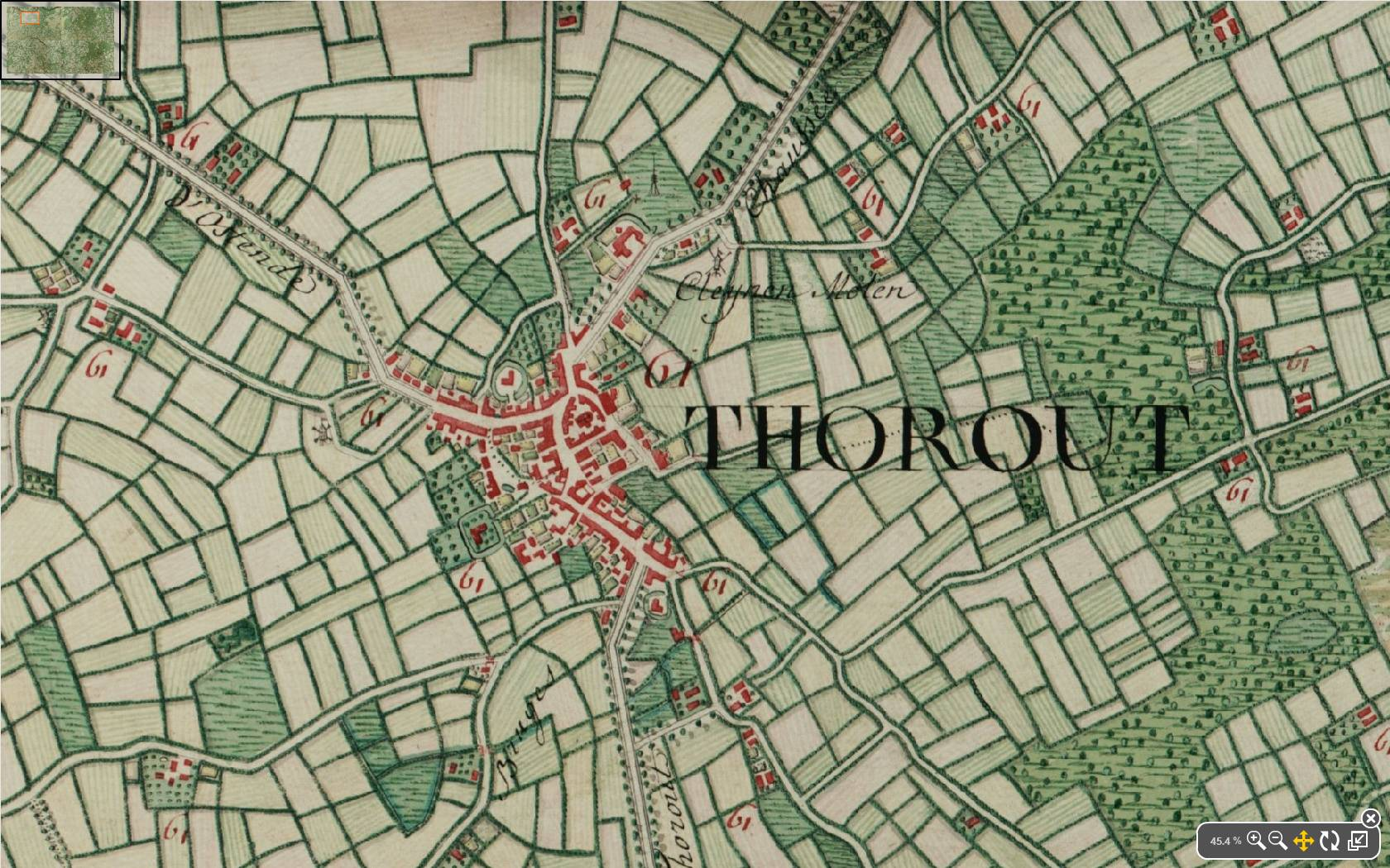 Torhout_,_Belgium,_Ferraris_Map,_1775.jpg